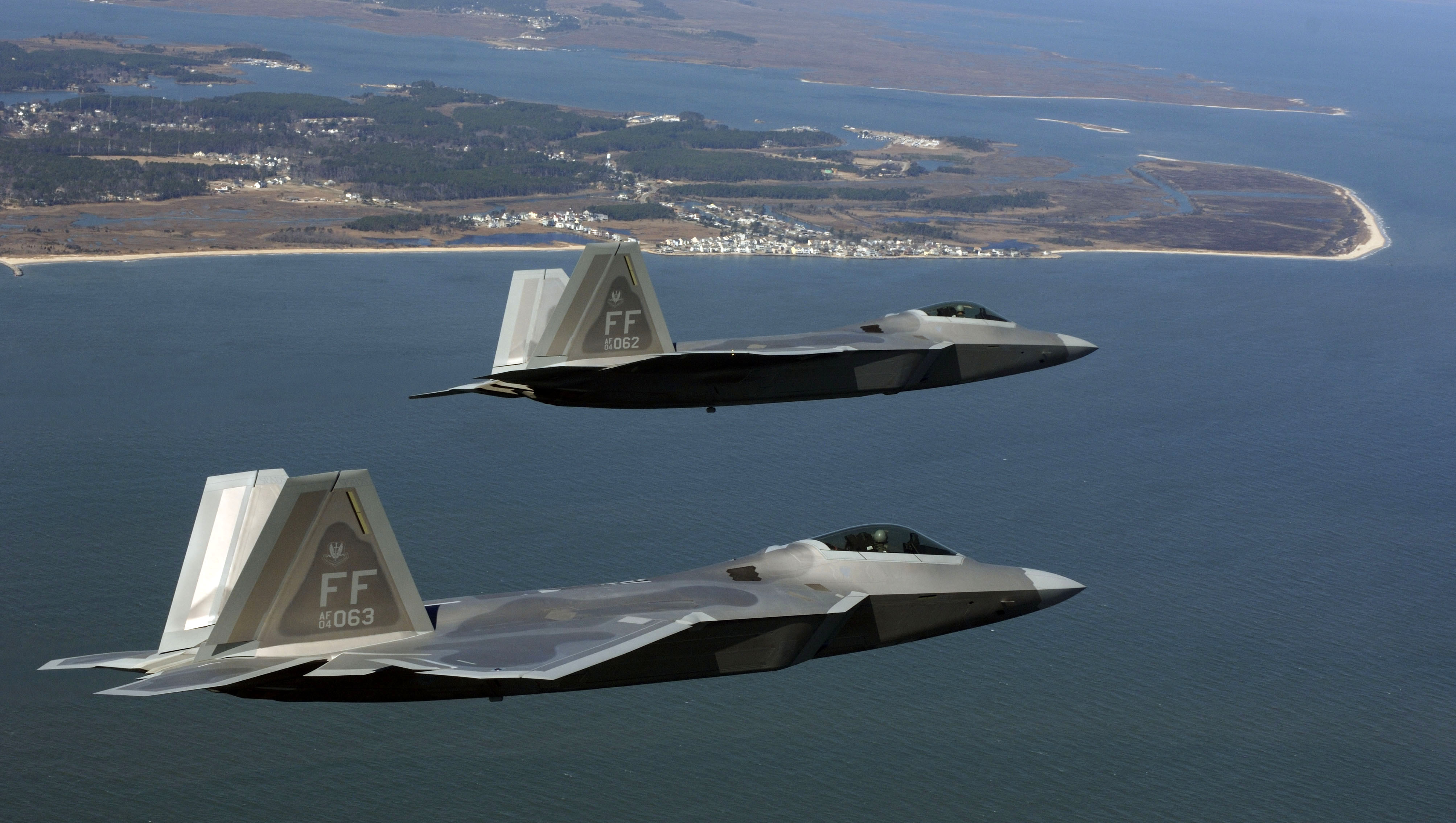 Lt. Col. Dirk Smith and Maj. Kevin Dolata move into the Langley Air Force Base pattern Friday, March 3, 2006 to deliver the first F-22A Raptors assigned to the 94th Fighter Squadron